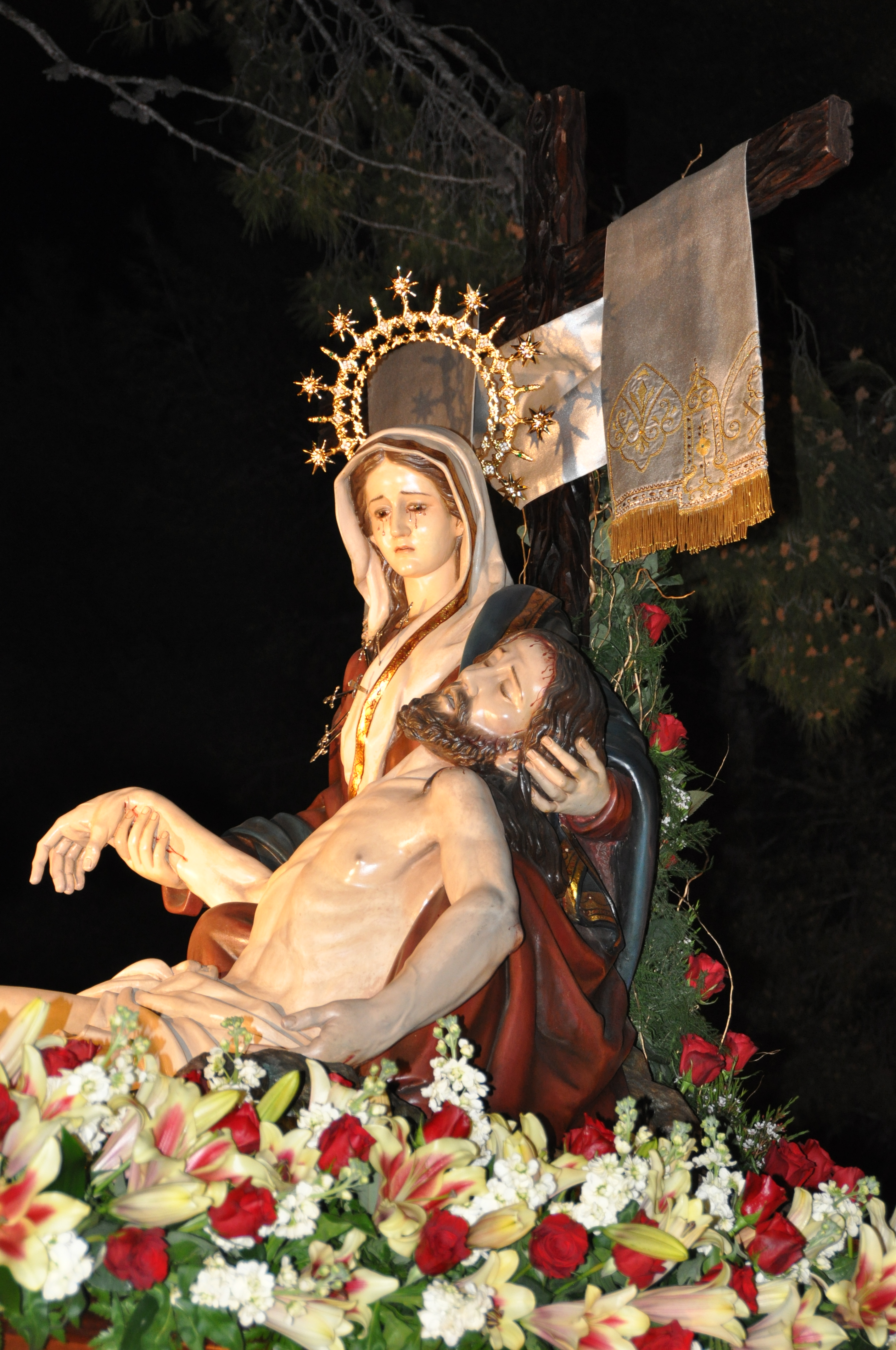 Our Lady of Sorrows of Monovar, is one of the images representing Santa monovera week. It is a polychrome image, very beautiful.